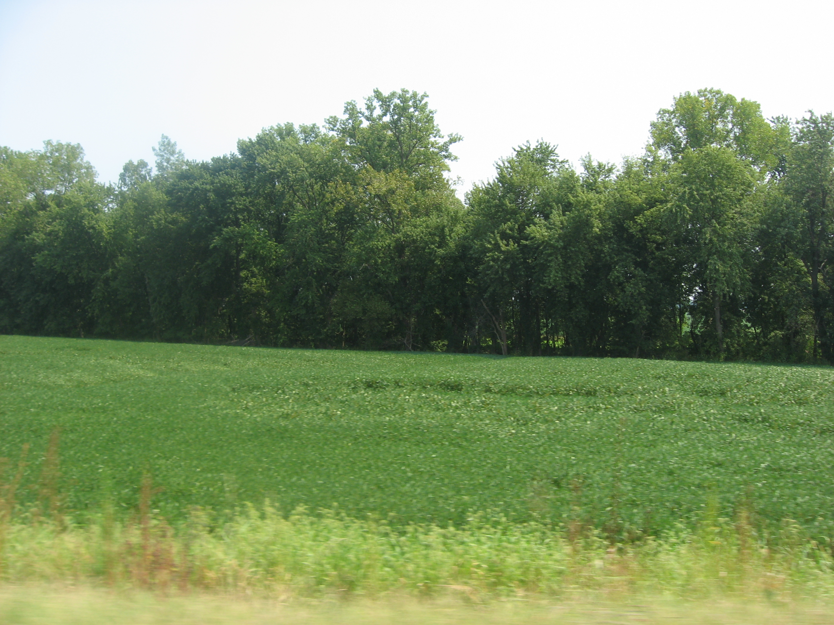 Overview of the Ashworth Archaeological Site, located in a field on the eastern side of State Road 69 north of Hovey Lake in Point Township, Posey County, Indiana, United States. Once a village of the Caborn-Welborn culture, a Mississippian people, Ashworth is an archaeological site and listed on the National Register of Historic Places.